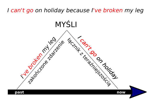 Thinking about past and present at the same time: according to M. Swan - Practical English Usage